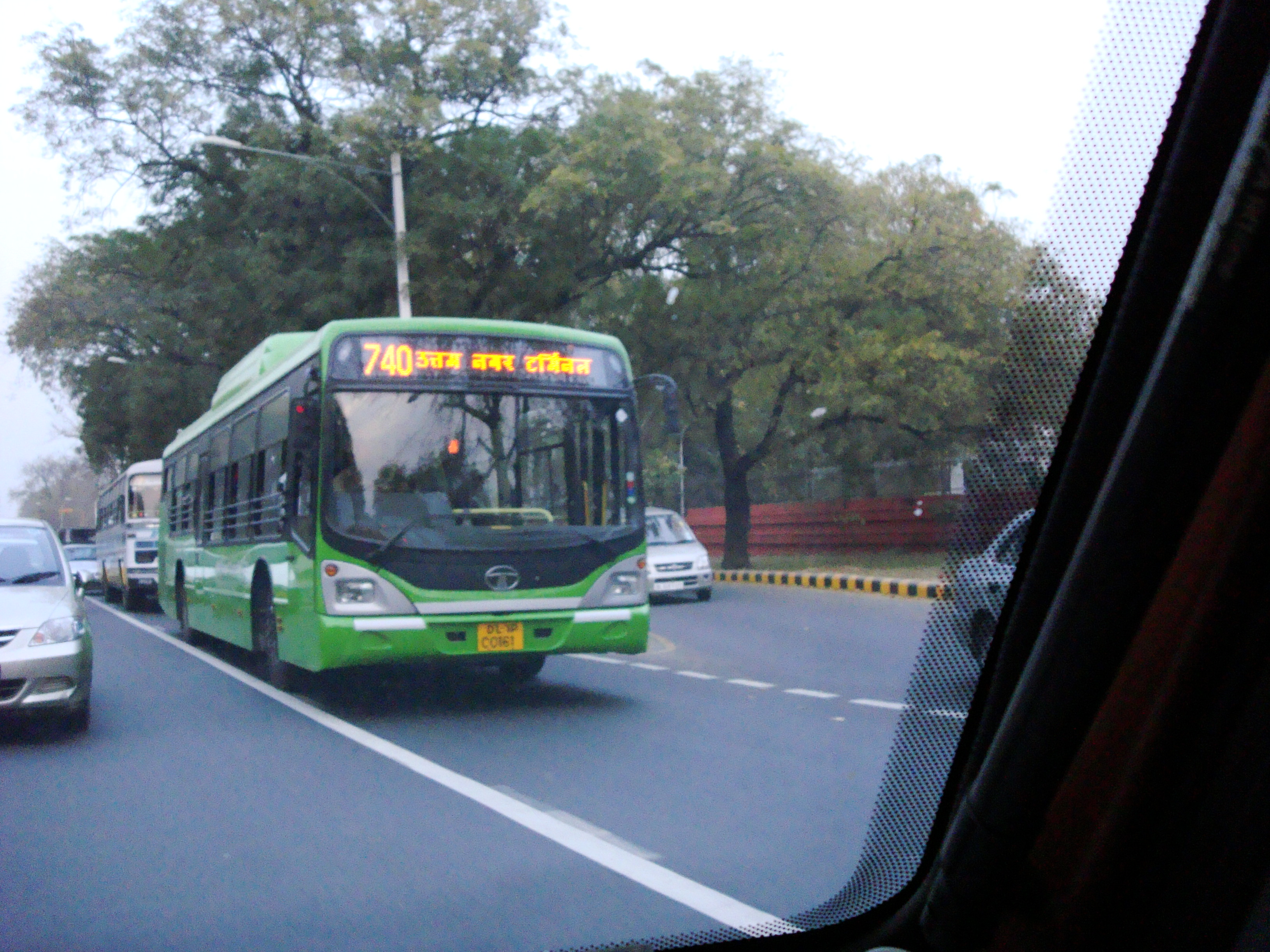 Delhi's new bus